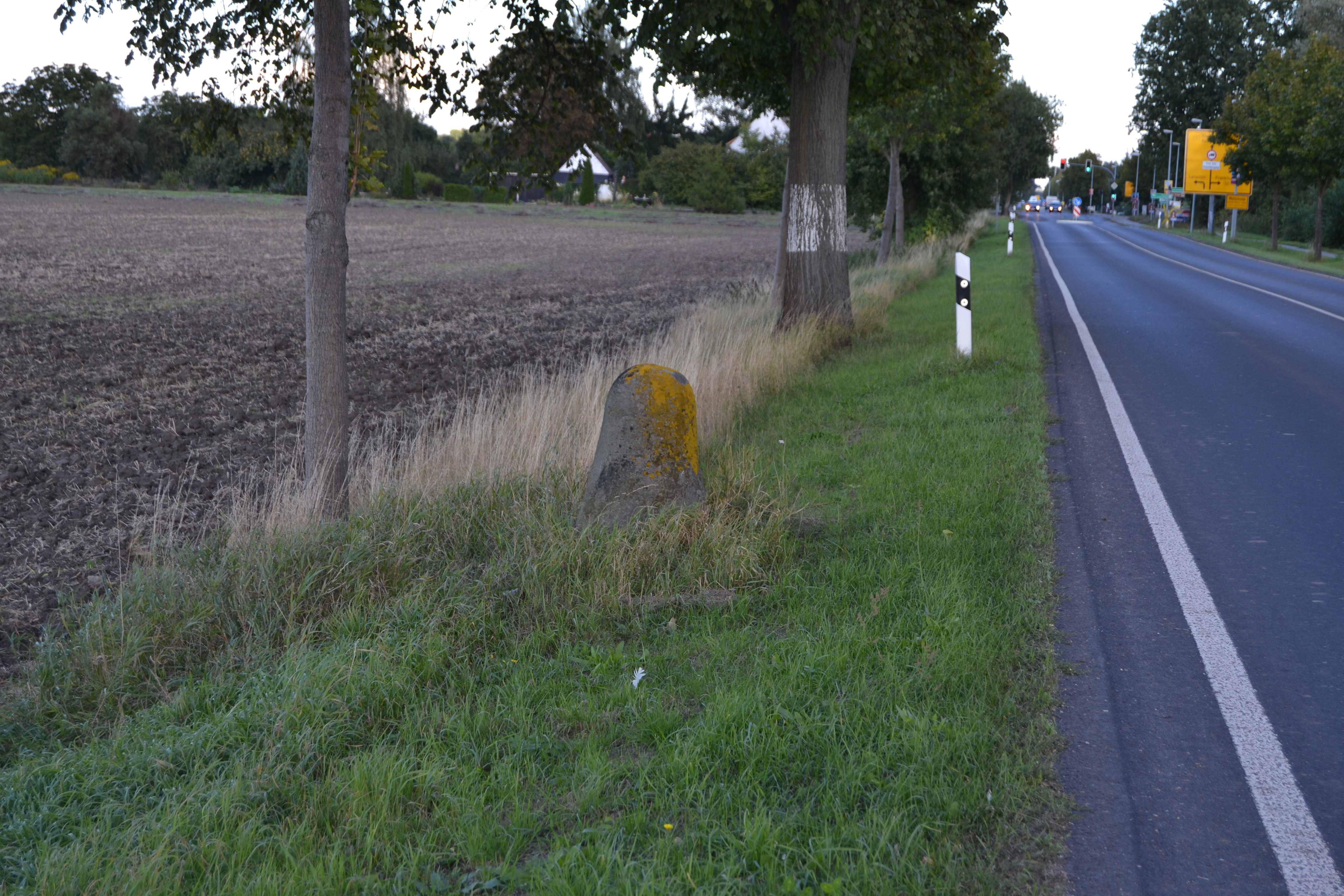 Quater milestone in Manschnow.